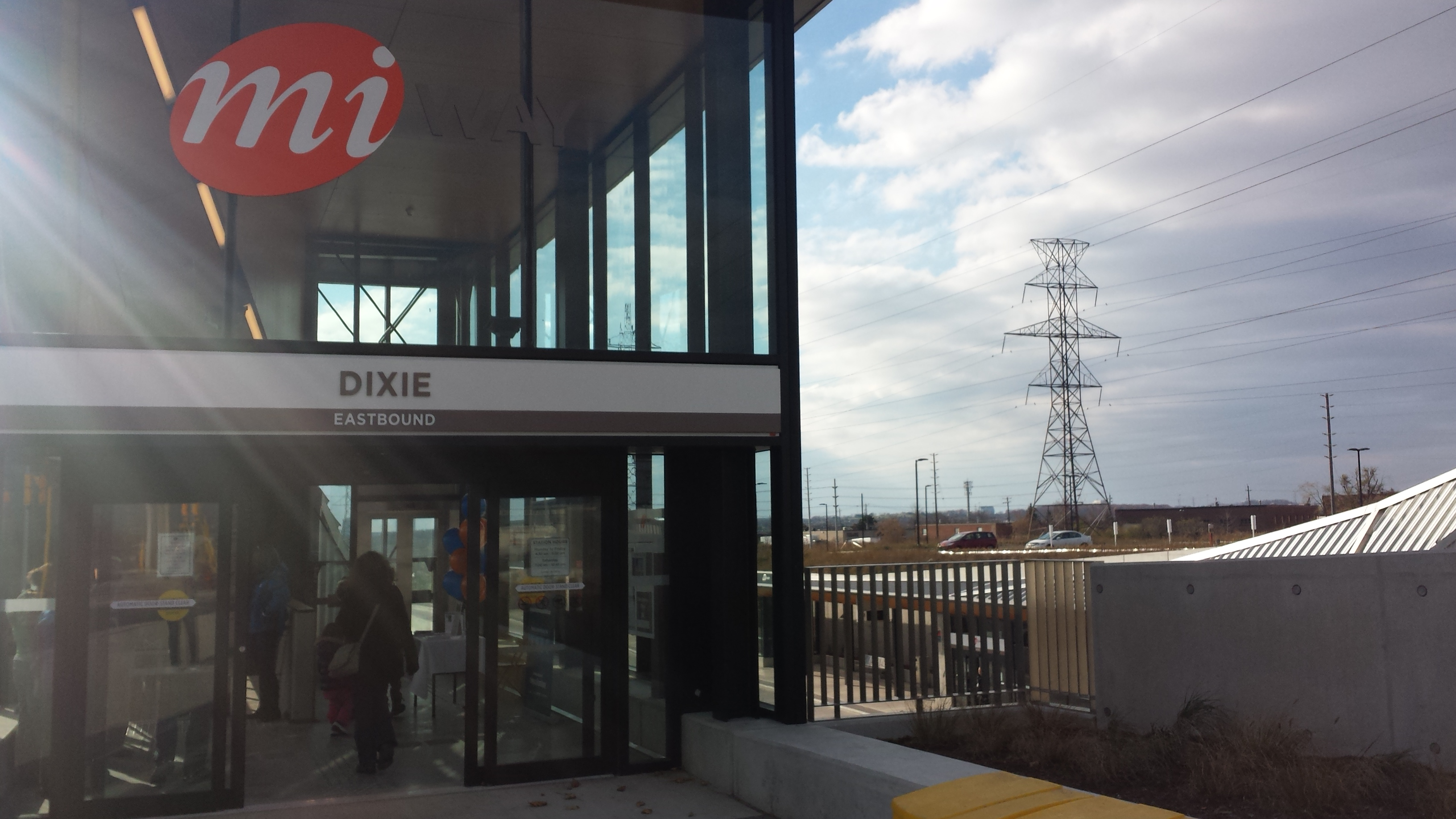 Mississauga Transitway Dixie Transitway Station